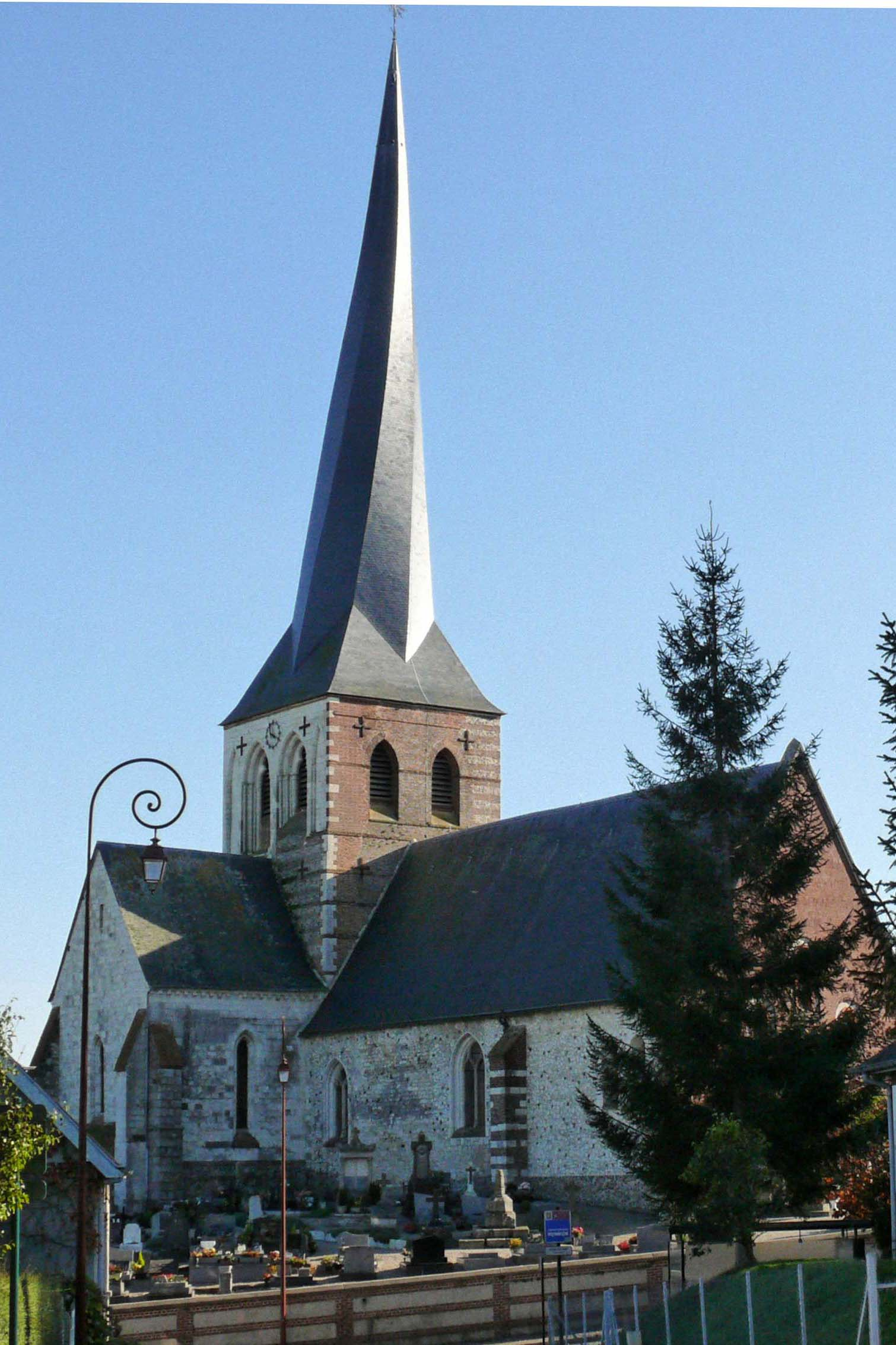 Clocher tors de Bures-en-Bray